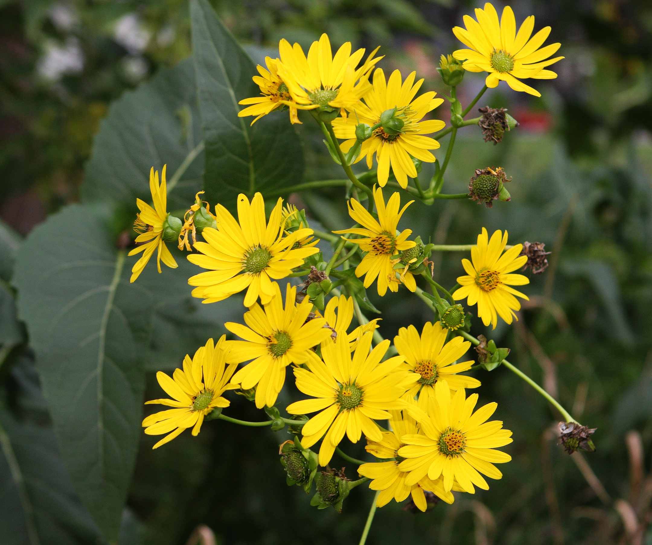 Flowers of Cup Plant - Silphium perfoliatum